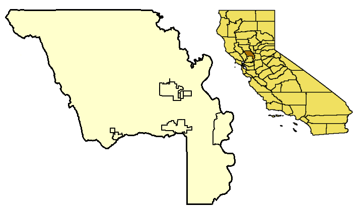 Map of Yolo County, California, USA with County highlighted in California. Created using data from United States Census Bureau.